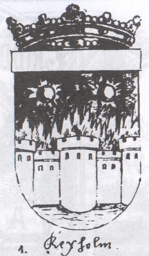 Coat of arms of Kexholm 1580